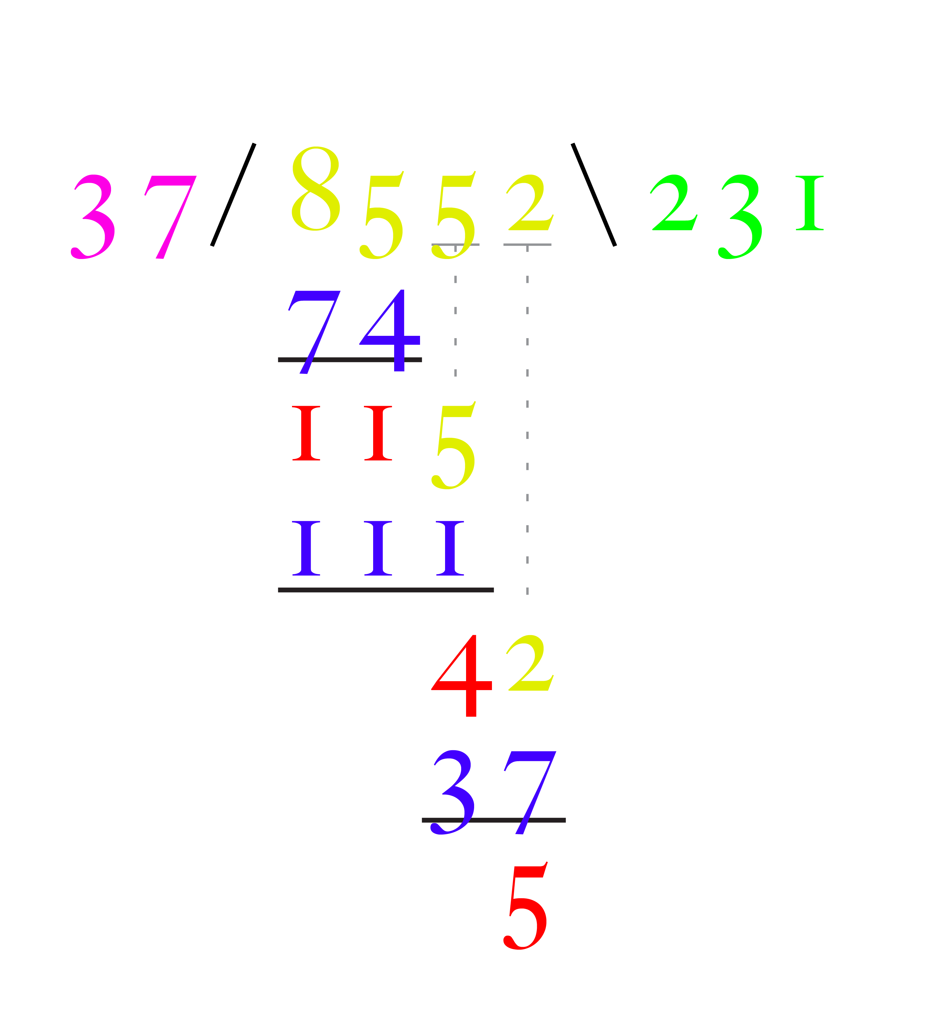 A simple example of the long division